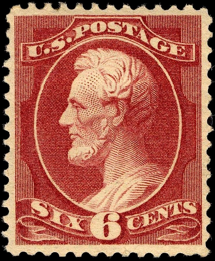 US Postage stamp, Abraham Lincoln, 1882 issue, 6c, rose